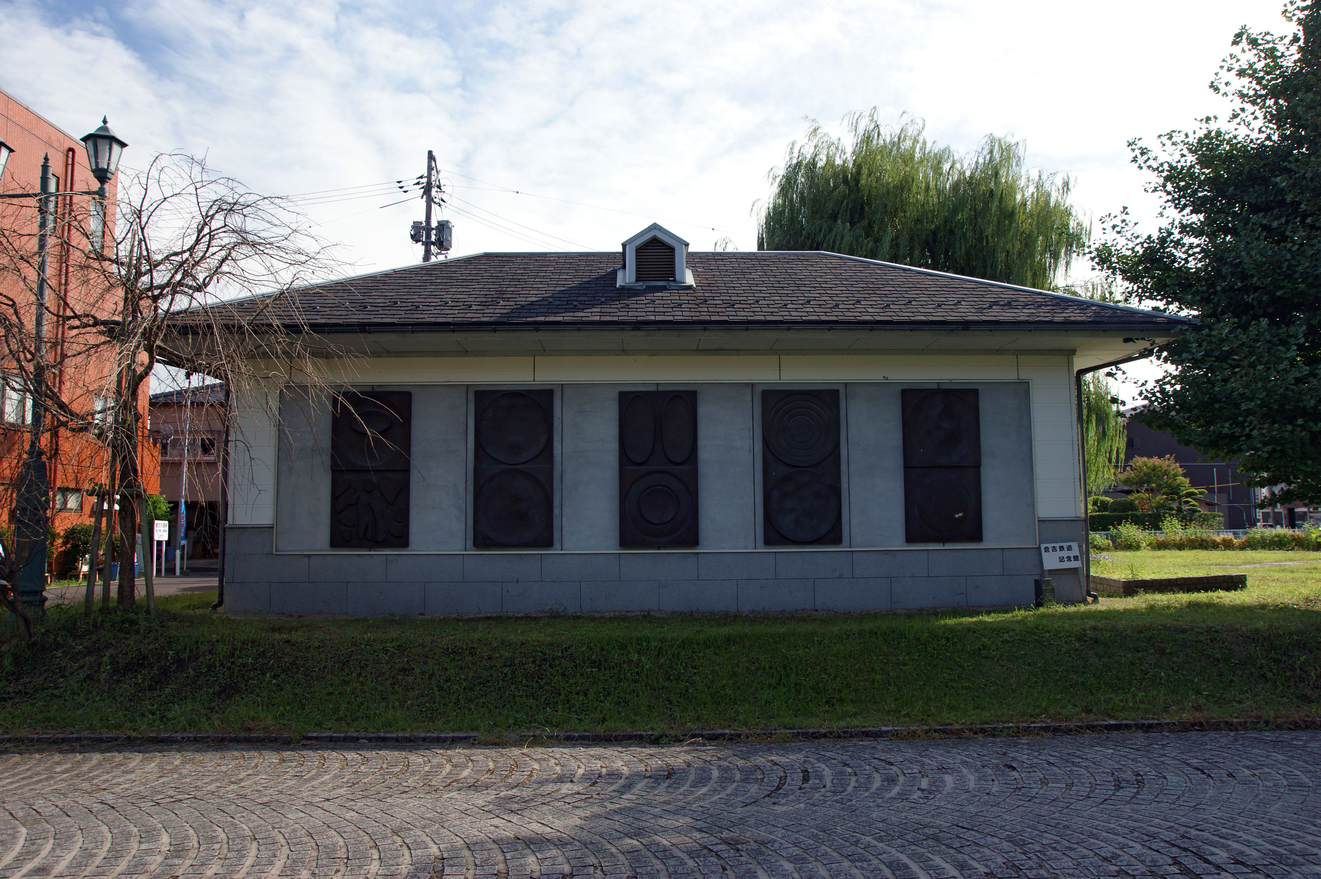 Kurayoshi line Railway Memorial in Kurayoshi, Tottori prefecture, Japan